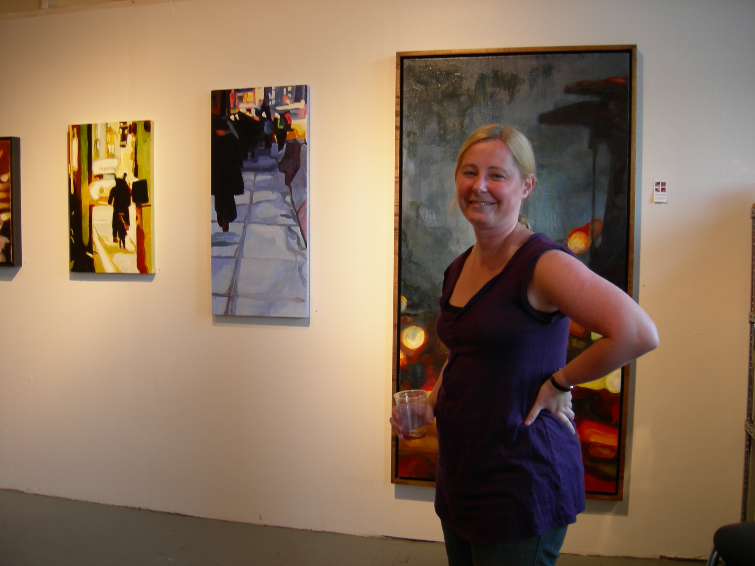 Artist Kate Protage in her (shared) studio at 619 Western Avenue, in Seattle's Pioneer Square neighborhood. The building contains mainly artist studios and small, artist-owned gallery spaces. First Thursday, September 2006. First Thursday is the traditional evening for gallery openings in the Pioneer Square neighborhood, and for artists in the neighborhood to open their studios to the general public.